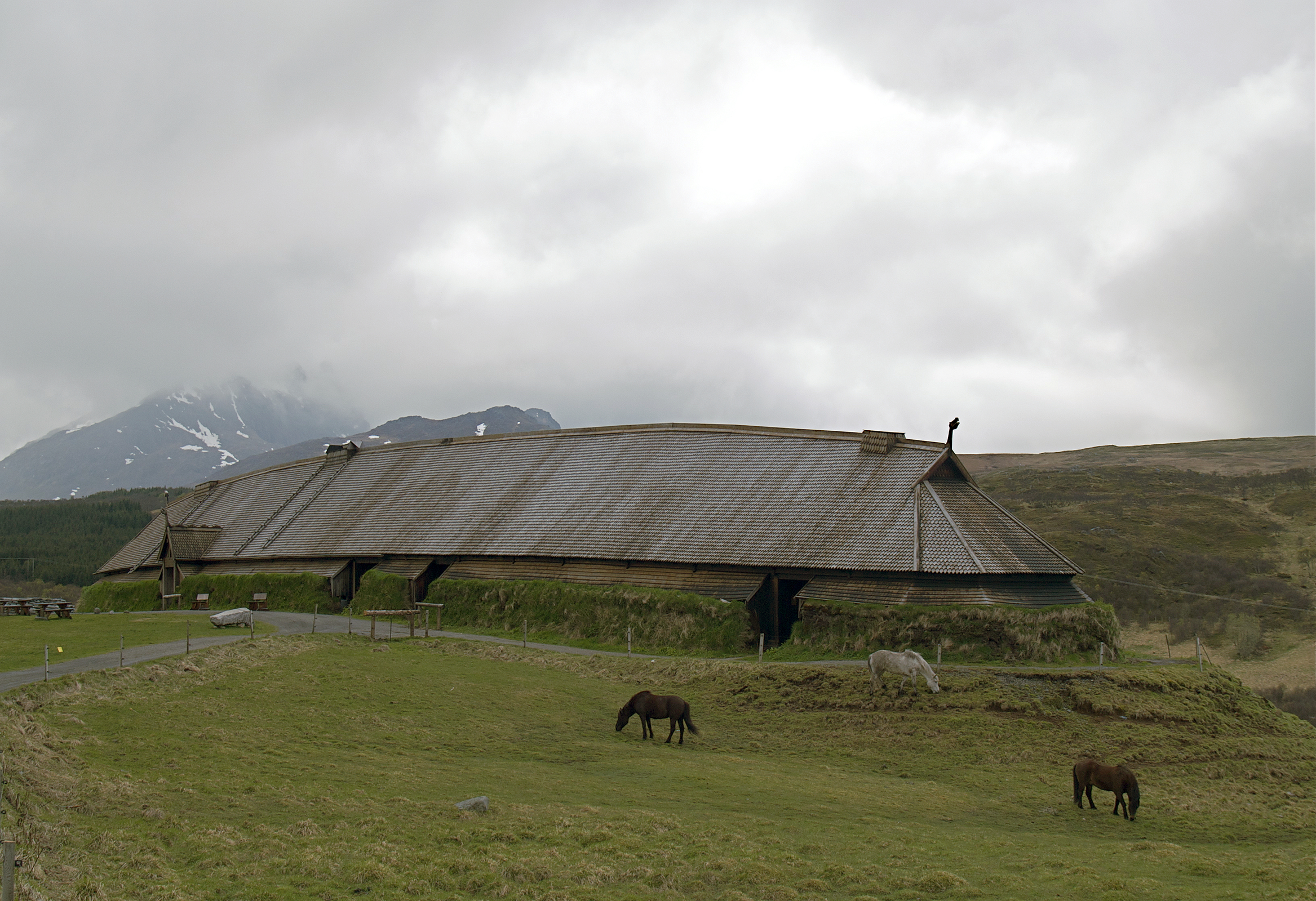 Reconstructed long house in the Vikingmuseum in Borg, Vestvågøy/Lofoten, Norway